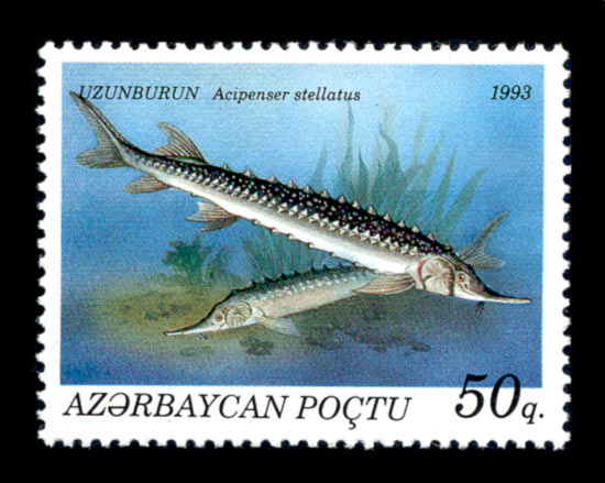 Stamp of Azerbaijan